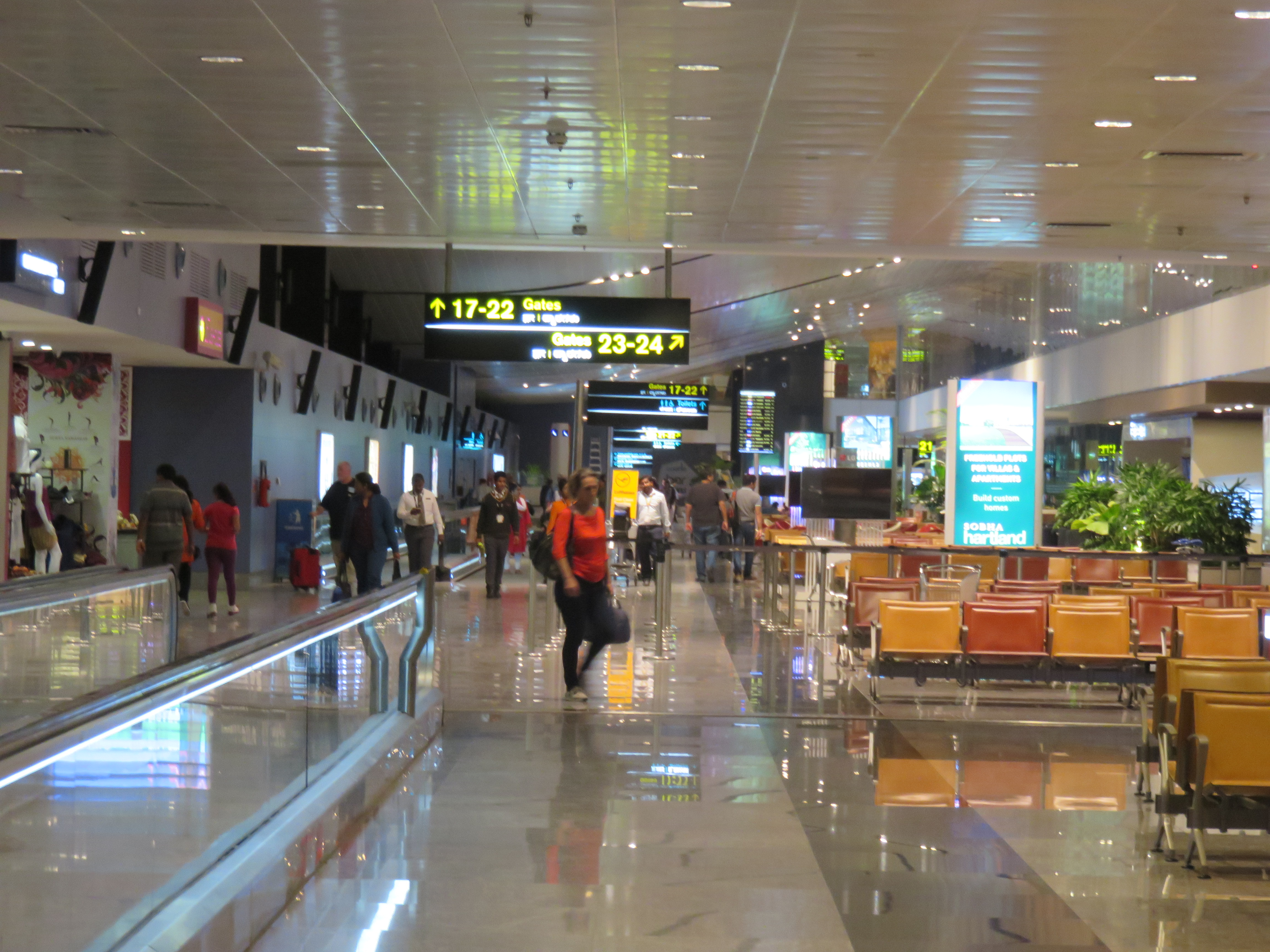 The International Departures section at Bengaluru's Kempegowda International Airport